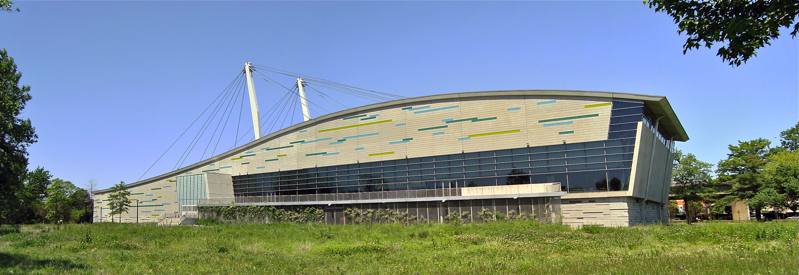 Western façade showcasing curtain walls that allow swimmers to engage with natural environment outside. Photo by Jennifer Chen